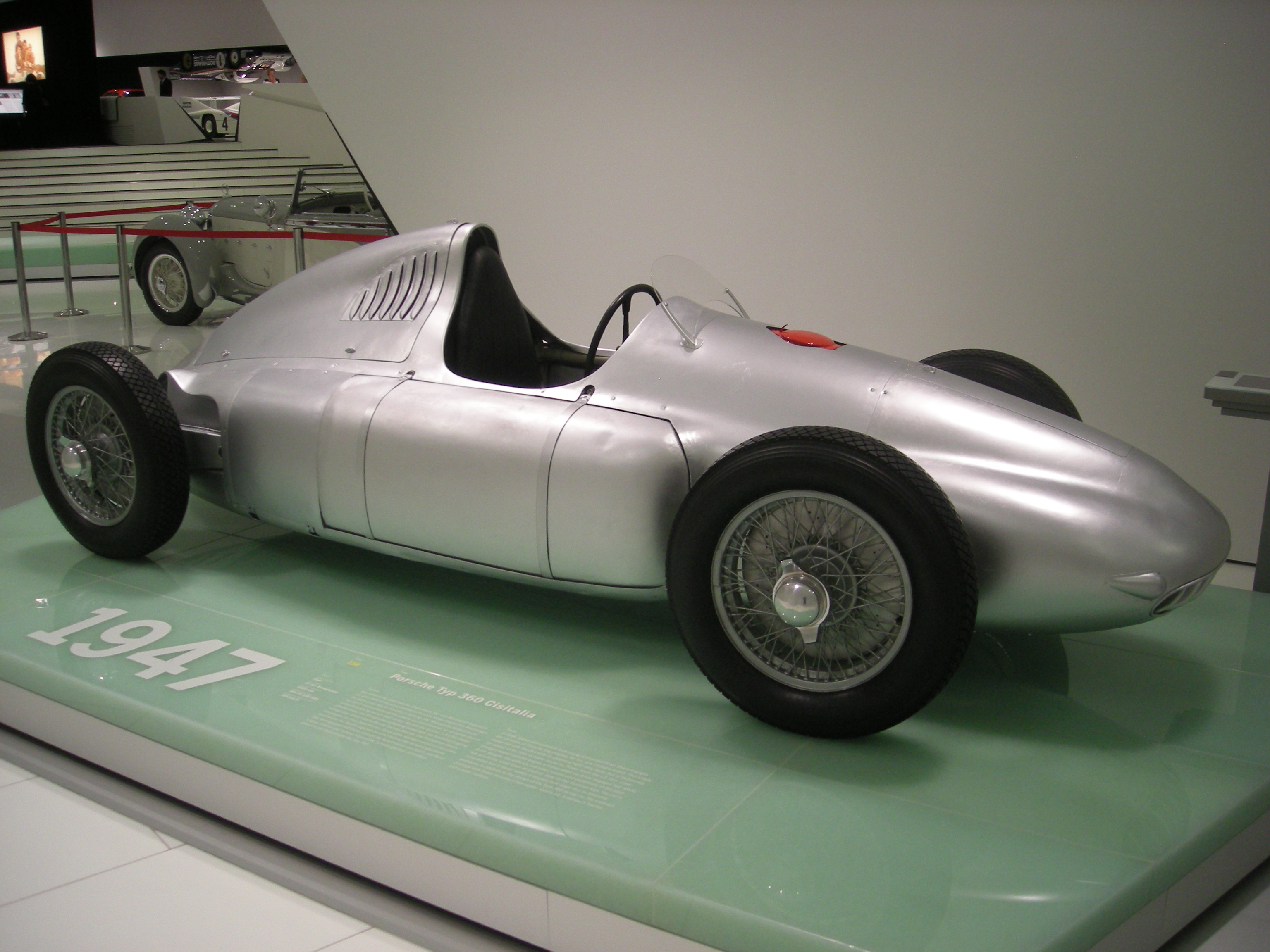 A 1947 Porsche Typ 360 Cisitalia inside the Porsche Museum in Stuttgart, Baden-Württemberg (Germany).